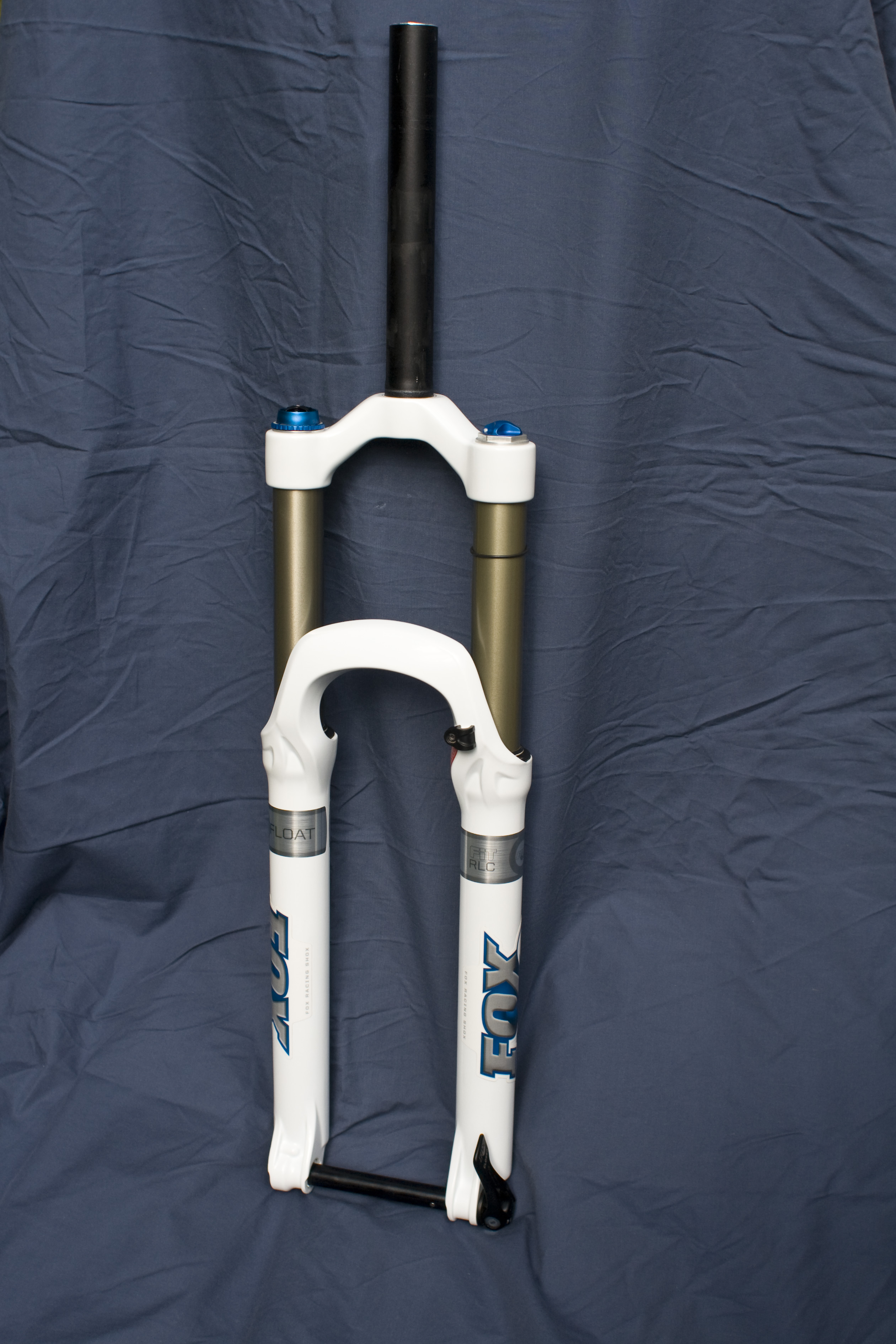 2010 Fox Float RLC 150 Bike Suspension Fork